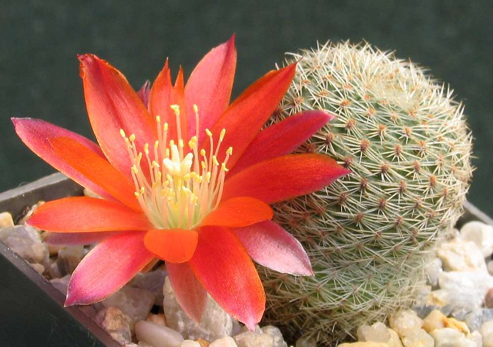 Rebutia heliosa Rausch subsp. teresae Knize et al. - cultivated plant from own collection.